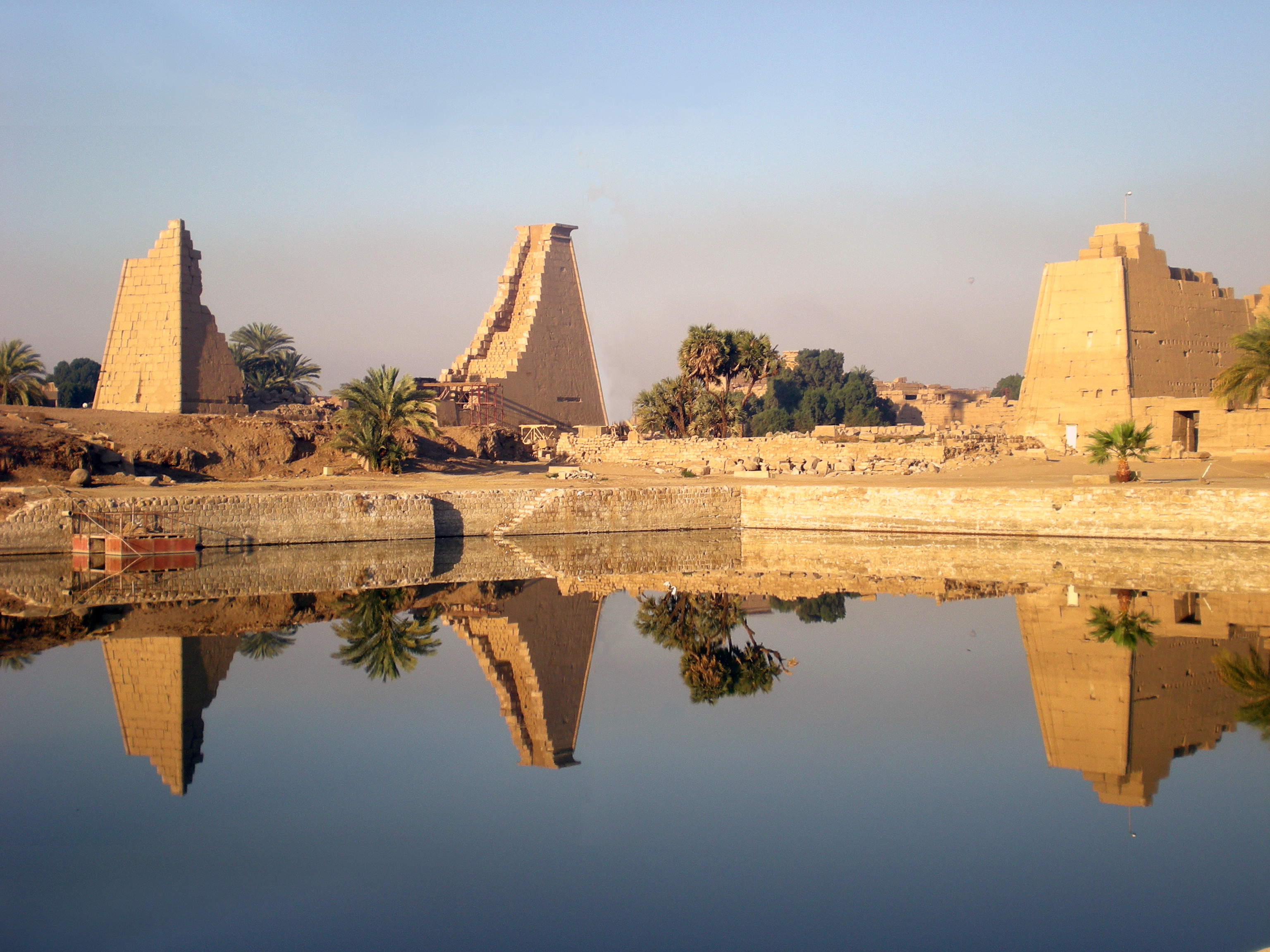 Sacred lake of Karnak temple, Egipt. March 2008.